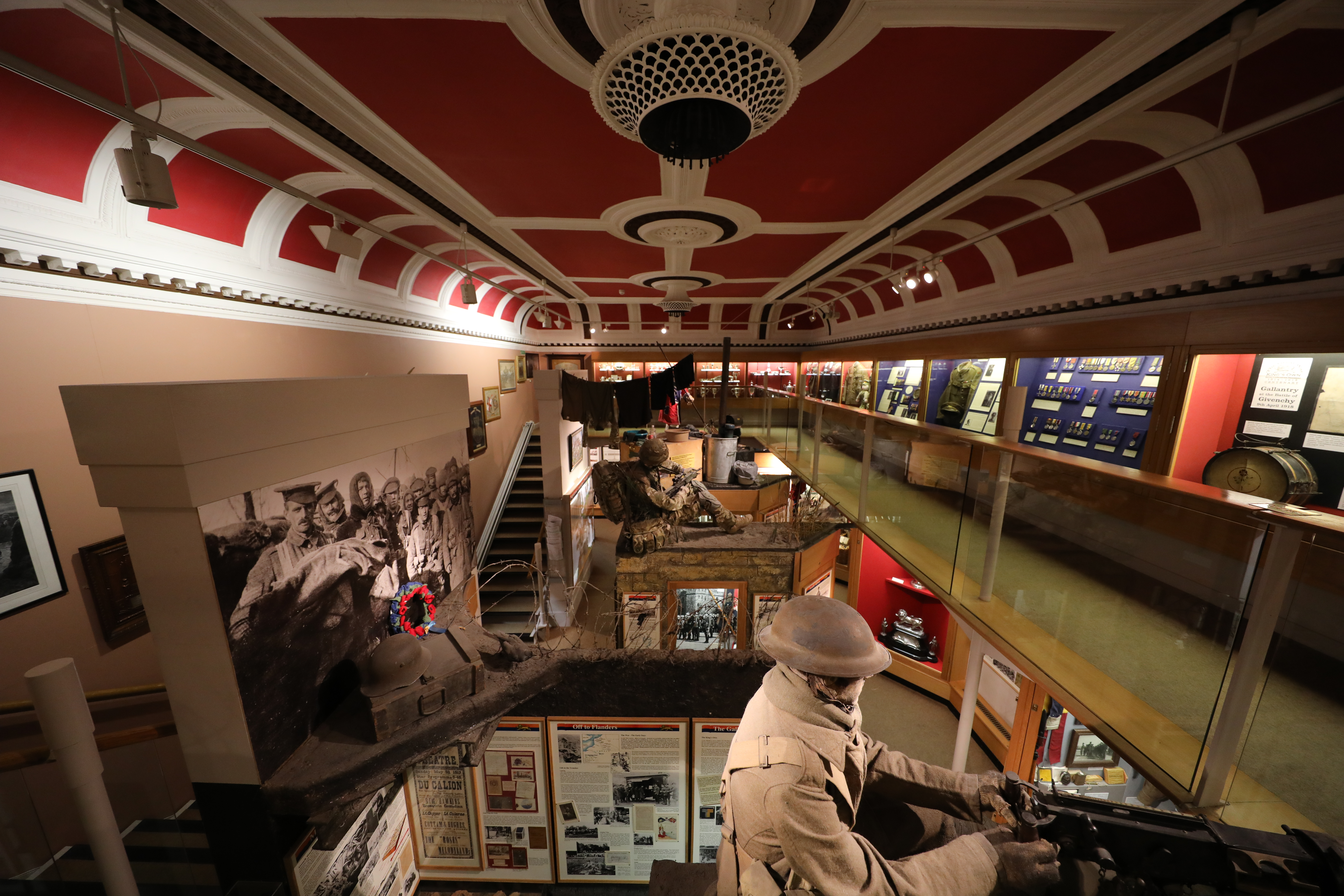 Photo of the King's Own Royal Regiment Museum taken from the upper floor